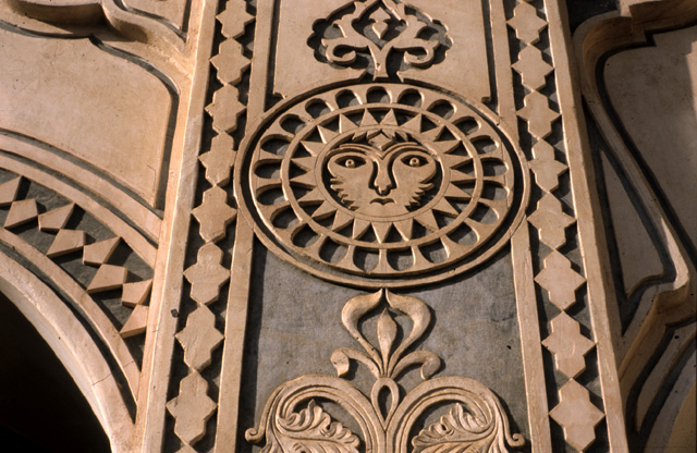 I am the photographer. Scanned from my slides.